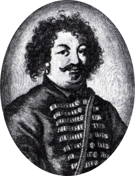 Stepan (Stenka) Timofeyevich Razin, a Cossack leader who led a major uprising against the Russian government.